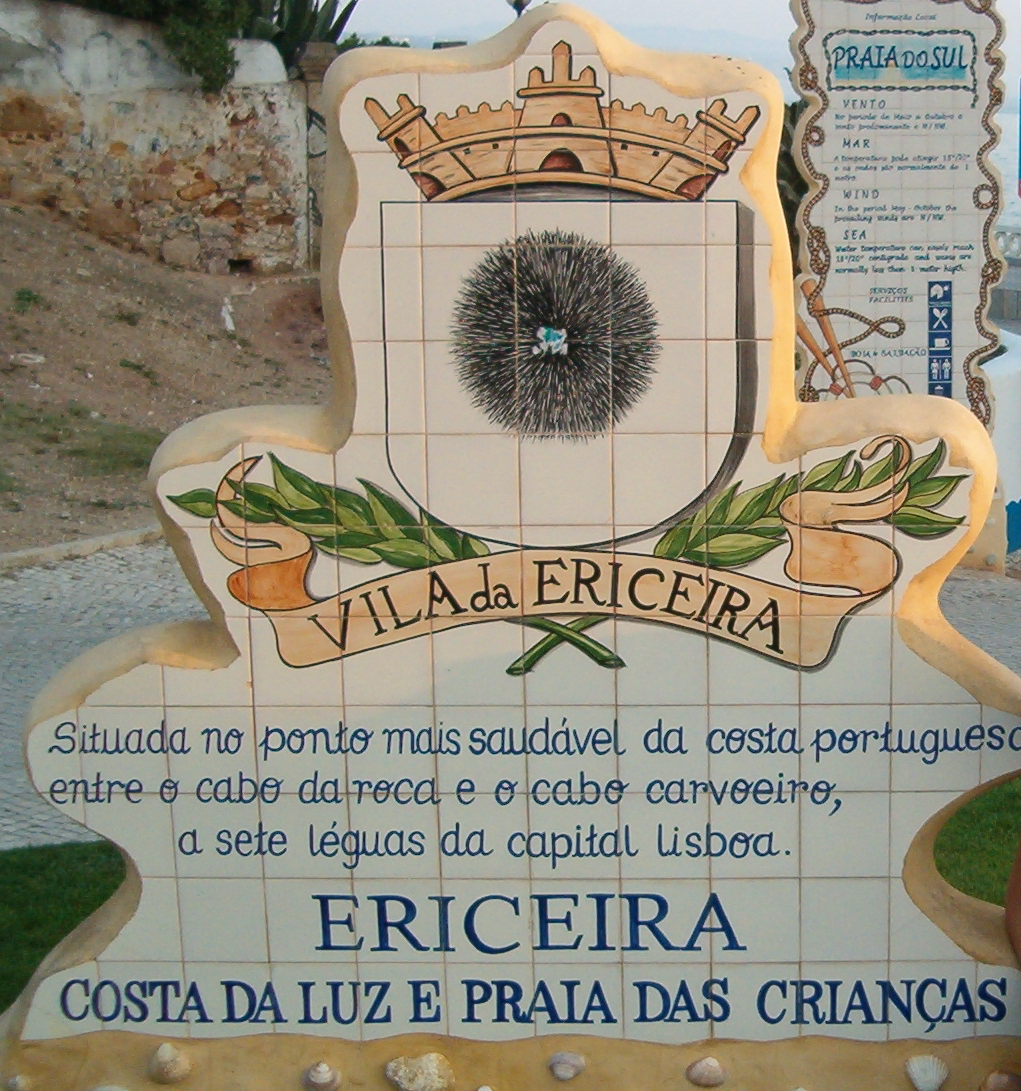 Ericeira